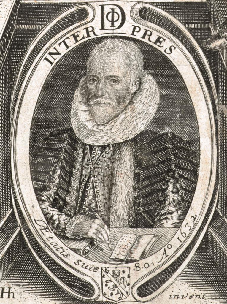 Portrait of Philemon Holland (1552–1637), aged 80, from the title page of his translation of Xenophon’s Cyrupaedia (1632). Engraving by William Marshall (fl 1617–1649), after an original drawing by Henry Holland (1583–c1650), son of Philemon.